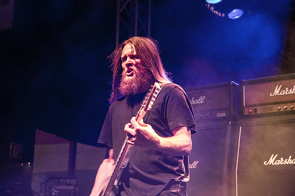 Obituary - 7.12.2012 - Music Hall, Geiselwind